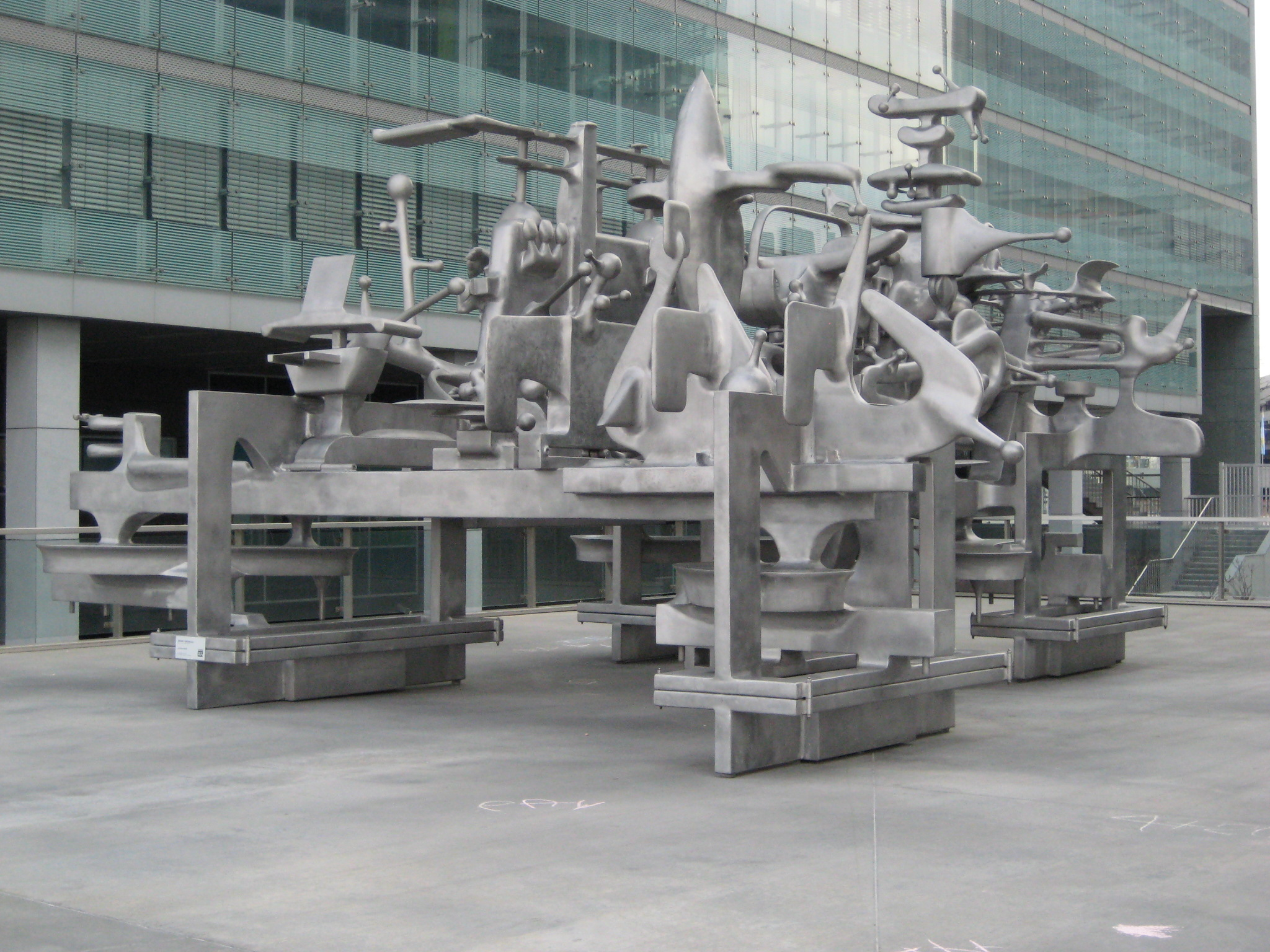 Sculpture by Bruno Gironcoli, Vienna - Donaucity 2010